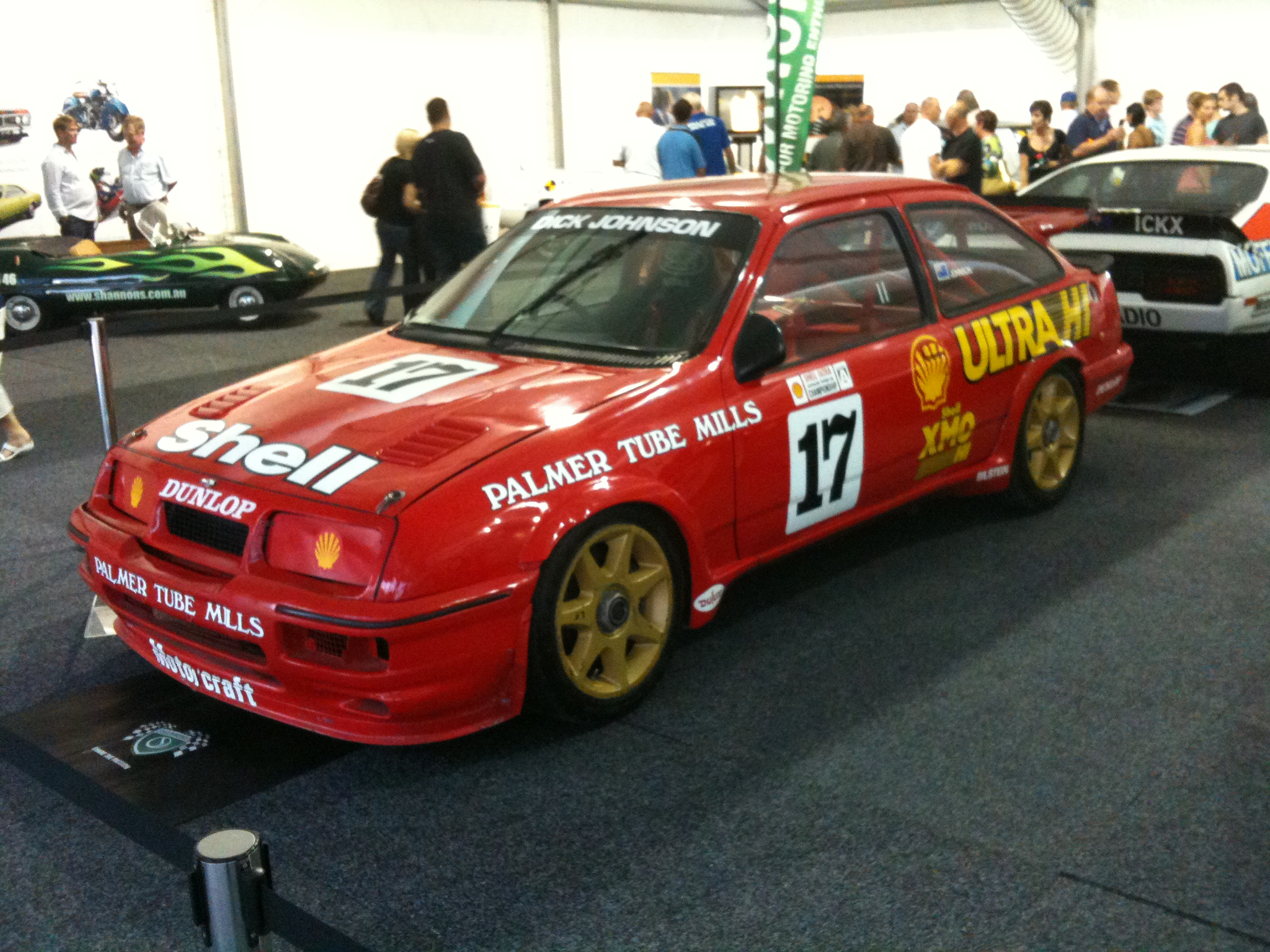 1989 Ford Sierra Cosworth RS500 Group A. This is the car driven by Dick Johnson and John Bowe to outright victory in the 1989 Tooheys 1000 race, held at the Mount Panorama Circuit at Bathurst New South Wales. Taken at the Top Gear Live show at Acer Arena, in the Olympic Precinct at Homebush in Sydney.